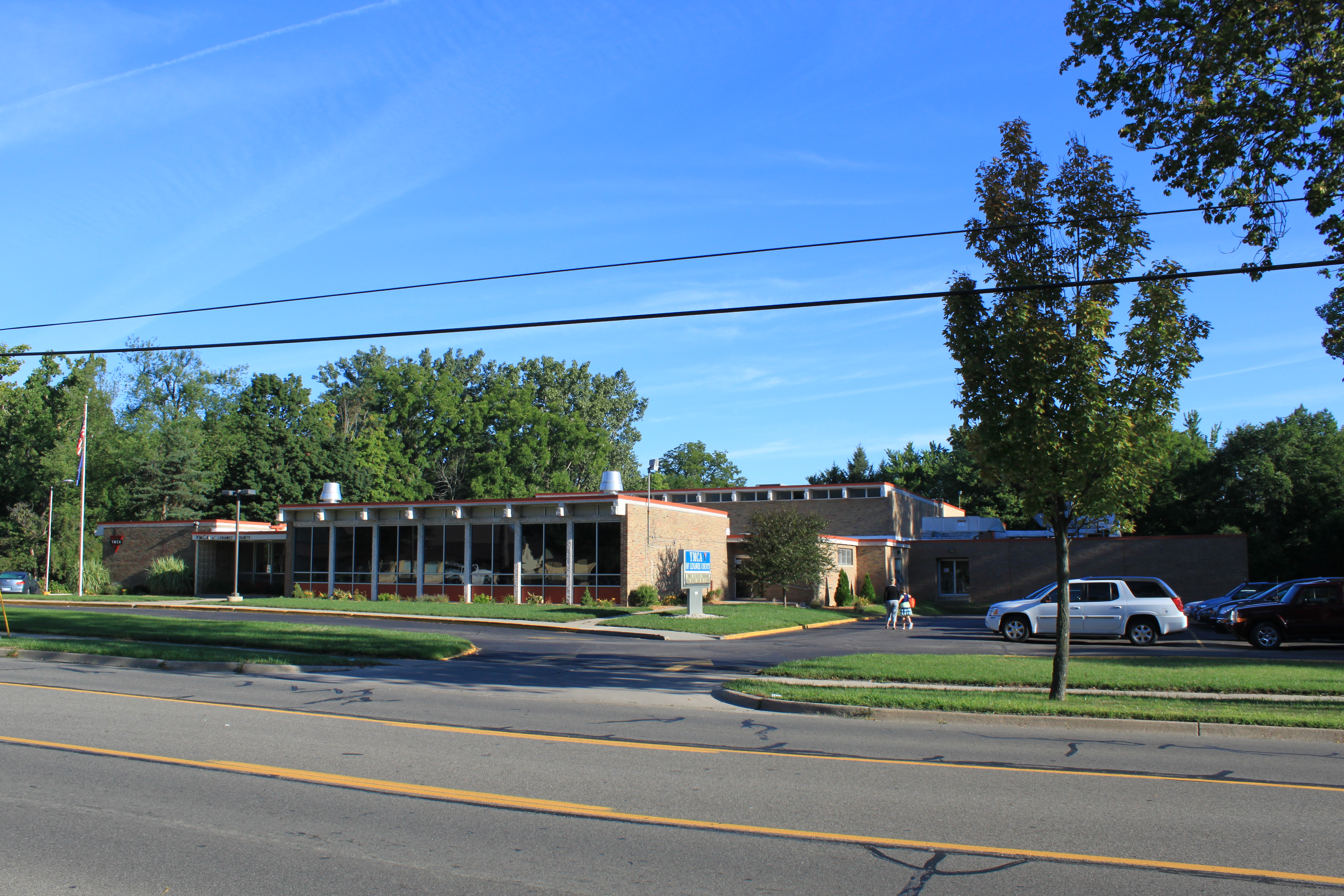 YMCA of Lenawee County, 638 West Maumee Street, Adrian, Michigan